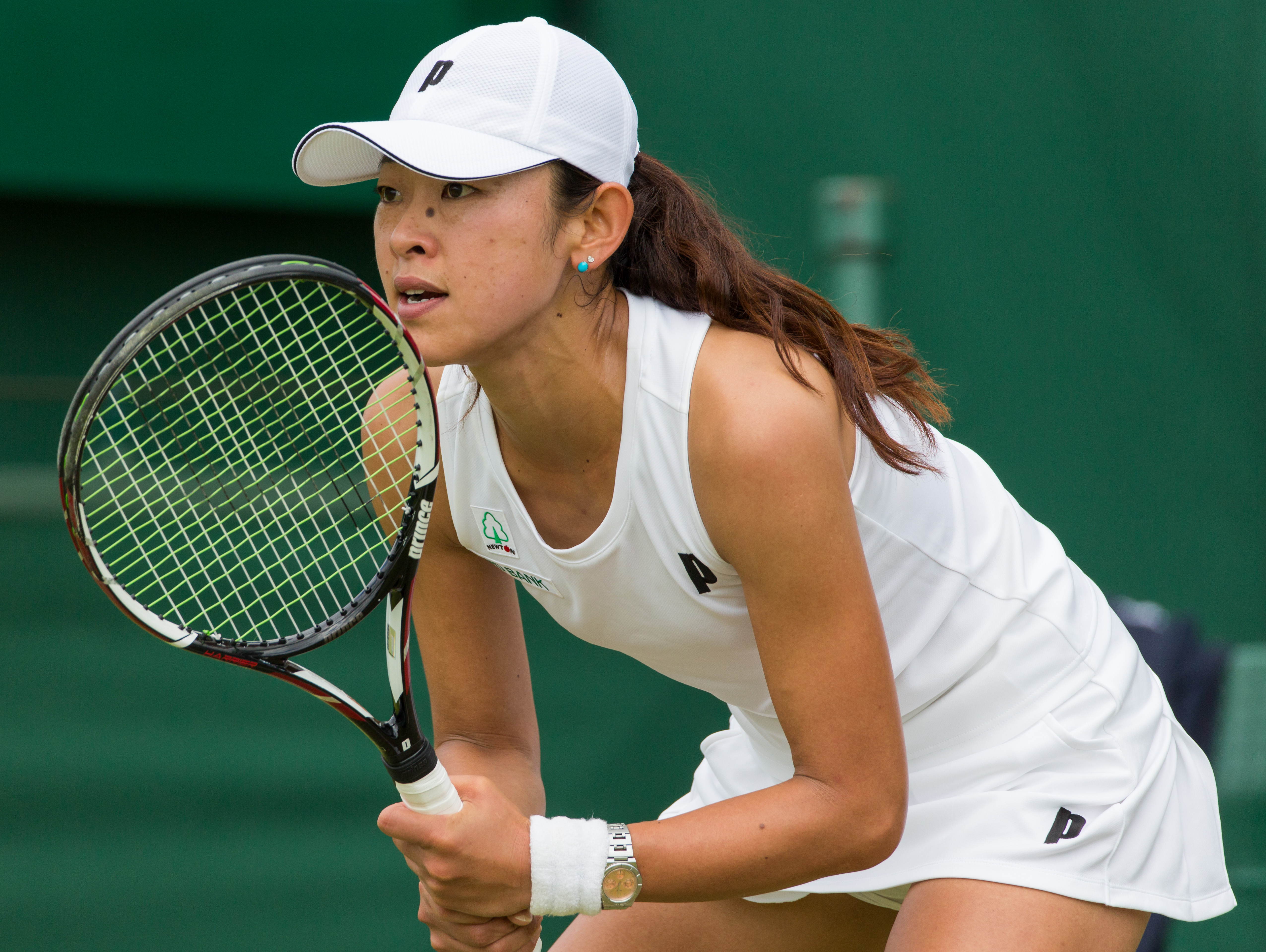 Junri Namigata competing in the first round of the 2015 Wimbledon Qualifying Tournament at the Bank of England Sports Grounds in Roehampton, England. The winners of three rounds of competition qualify for the main draw of Wimbledon the following week